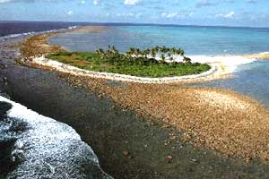 Vilingiri Island, Minicoy Atoll.